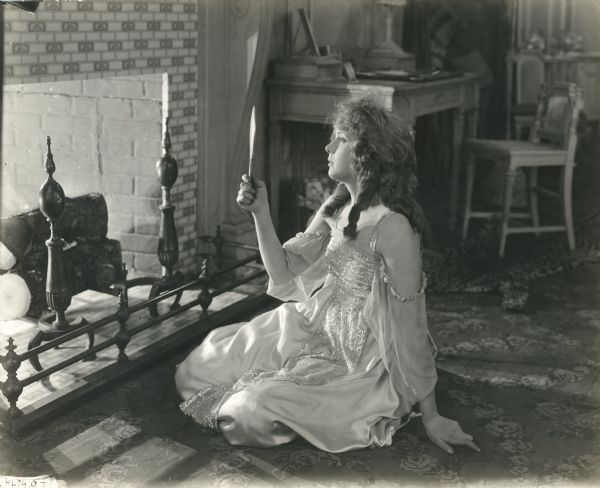 Princess Pat (played by Gladys Leslie) sits by the fireplace and examines her face in a hand mirror in a scene still for the 1918 Vitagraph production The Wooing of Princess Pat.